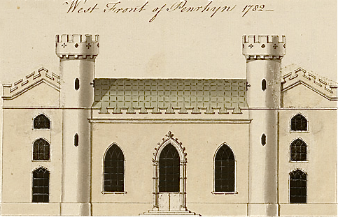 Penhryn Castle by Samuel Wyatt 1782